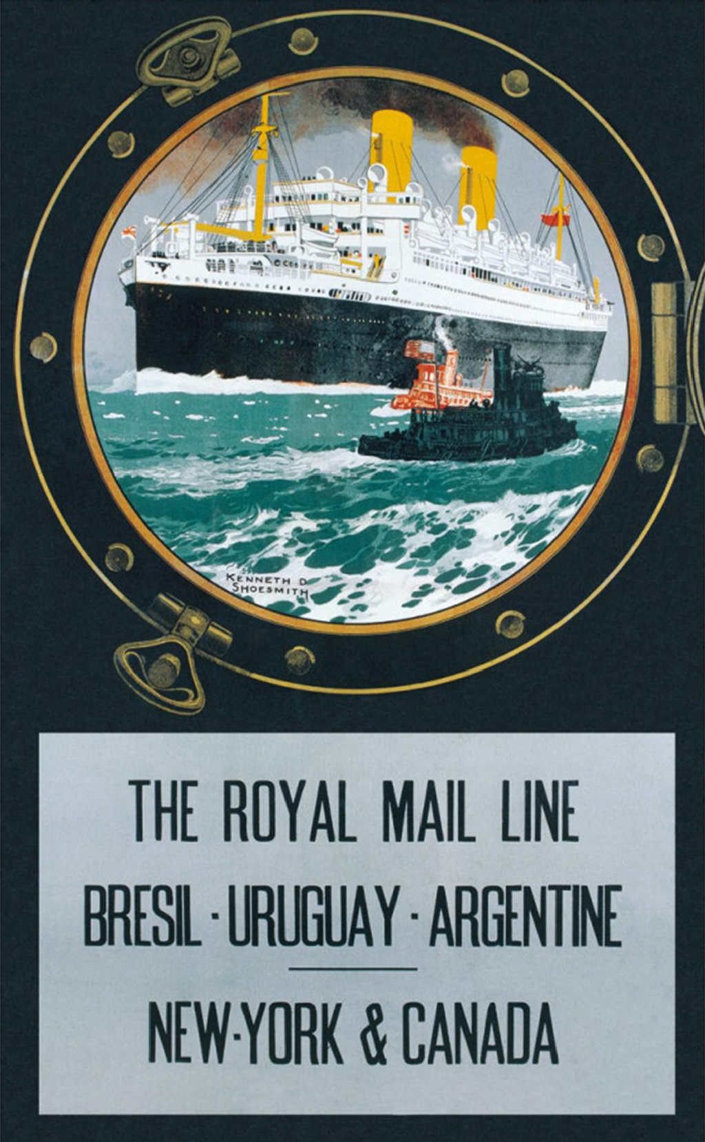 Royal Mail Lines poster advertising voyages to South and North America